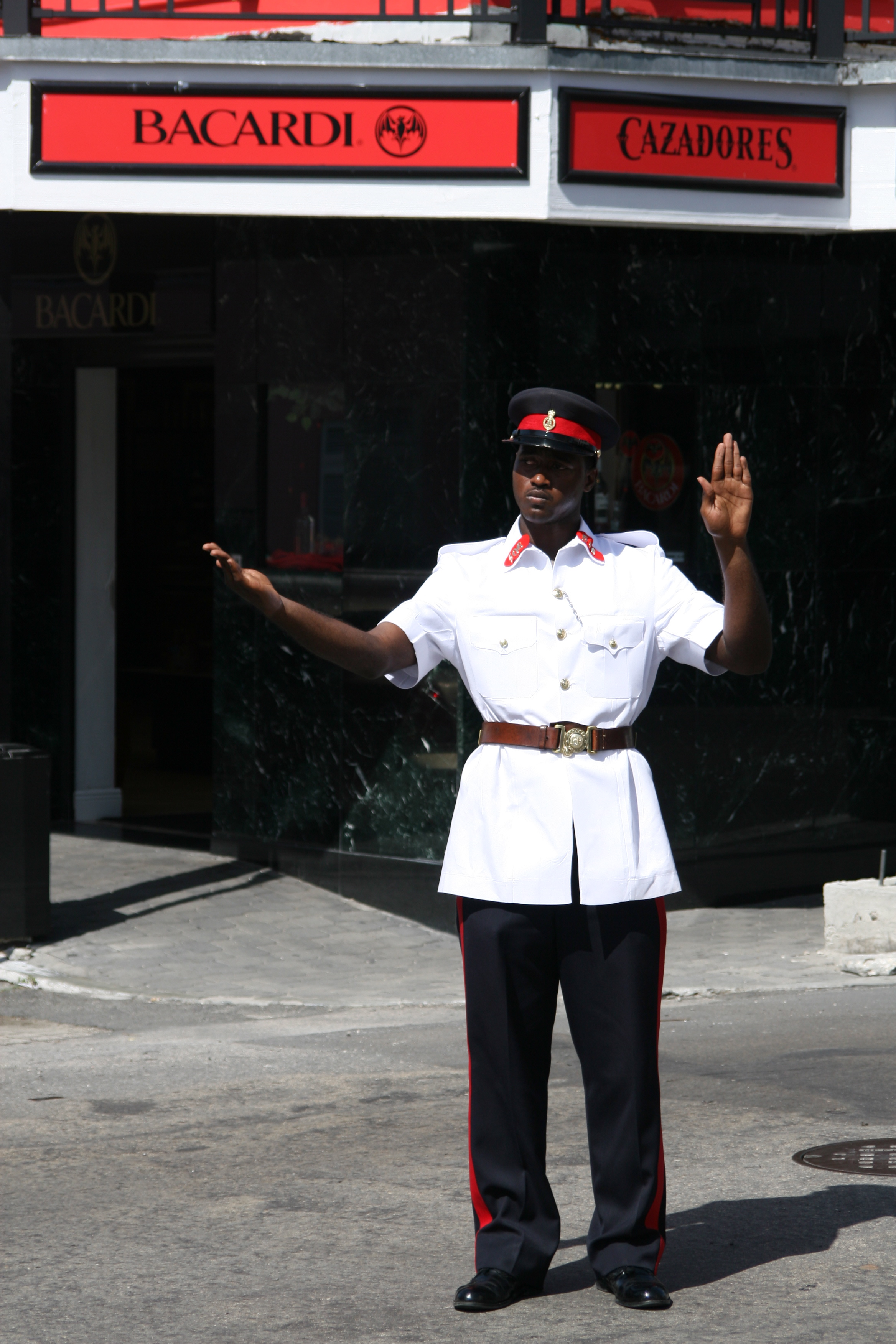 Royal Bahamas Policeman manually controlling traffic in downtown Nassau.